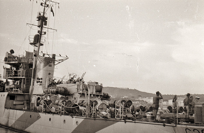 GER UJ 2221 (ex Vespa) a Pozzuoli MM MG (3)